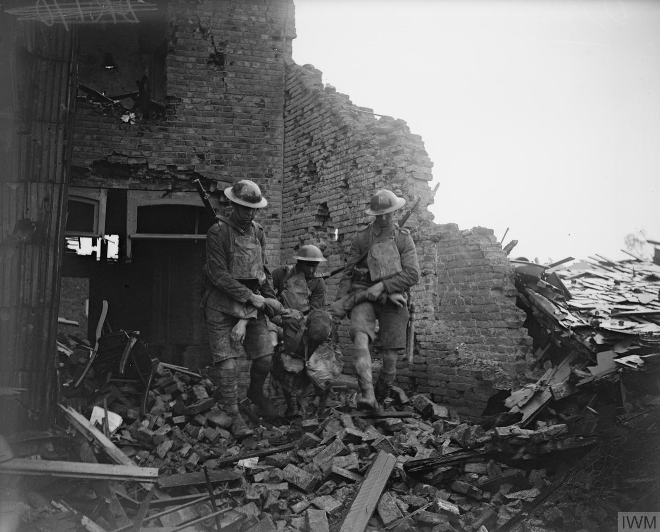 The London Regiment on the Western Front, 1914-1918 Daylight patrol of the 18th Battalion, London Regiment (London Irish Rifles) into Albert. Bringing back one of the soldiers of the patrol, who was killed, 6 August 1918. Albert was retaken by the 18th Division on 22 August.